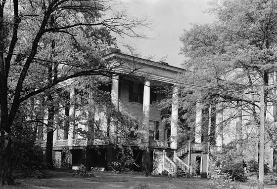 Bennett House, Robert Toombs Avenue (Wilkes County, Georgia) AKA Barnett Tupper McRae House (cropped)